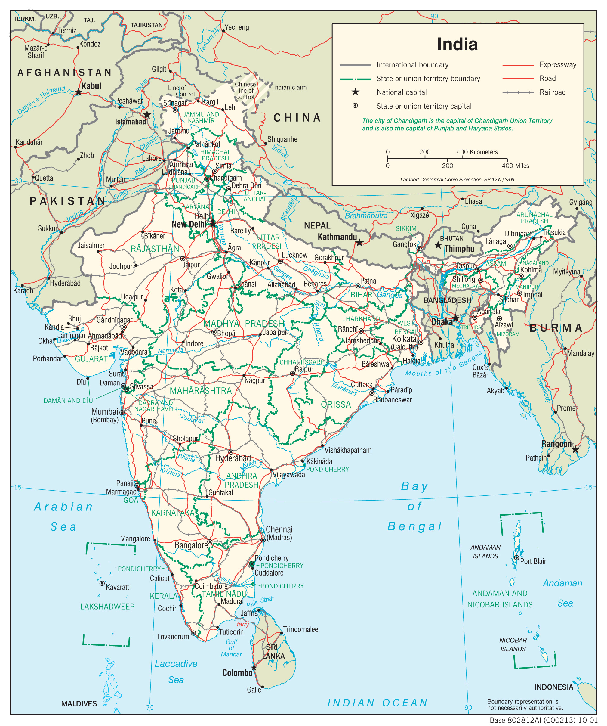 Transport system in India, 2001.